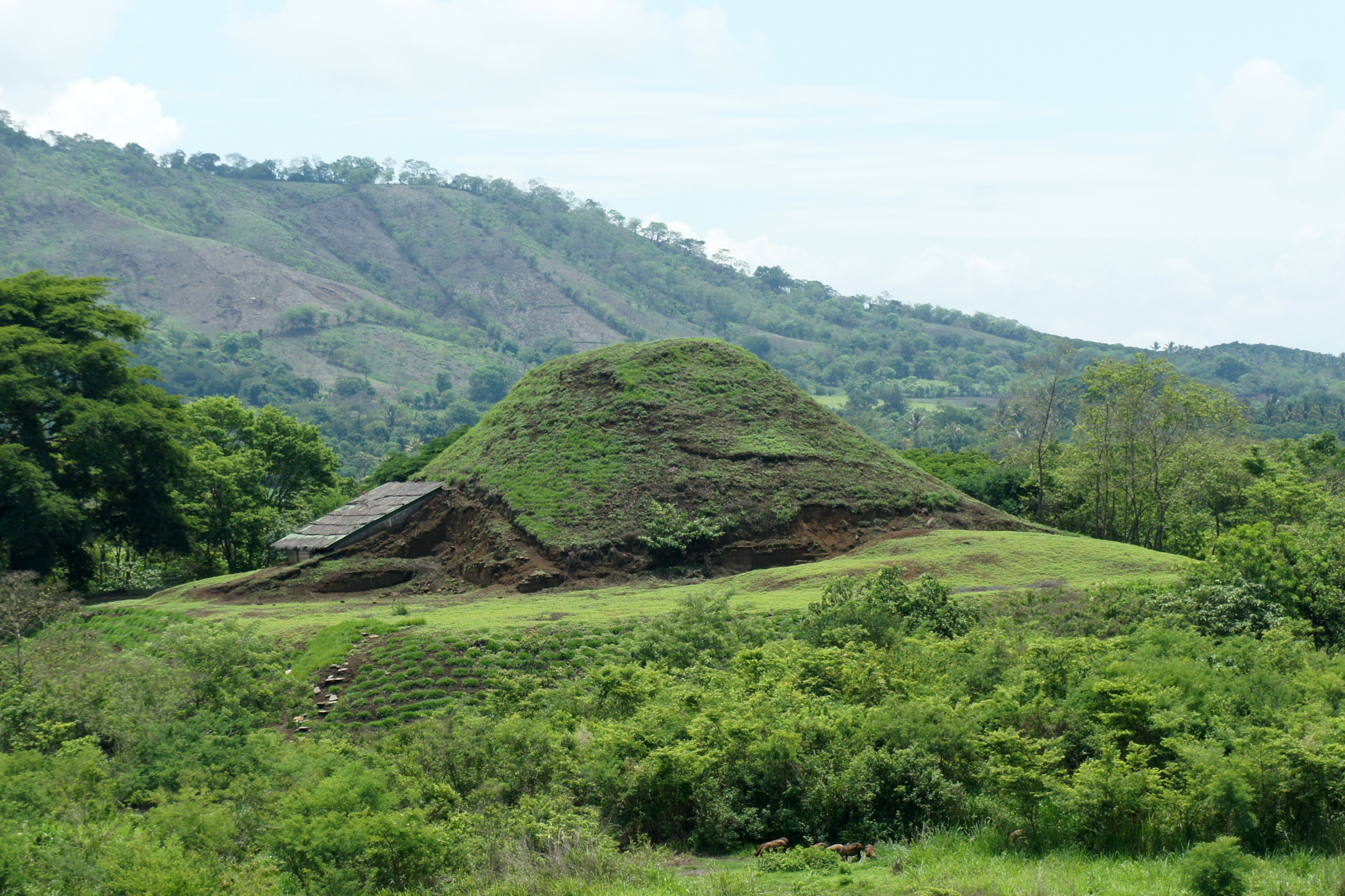 Mayan pyramid (structure 5) La Campana, San Andres, El Salvador. Digging has not been completed.